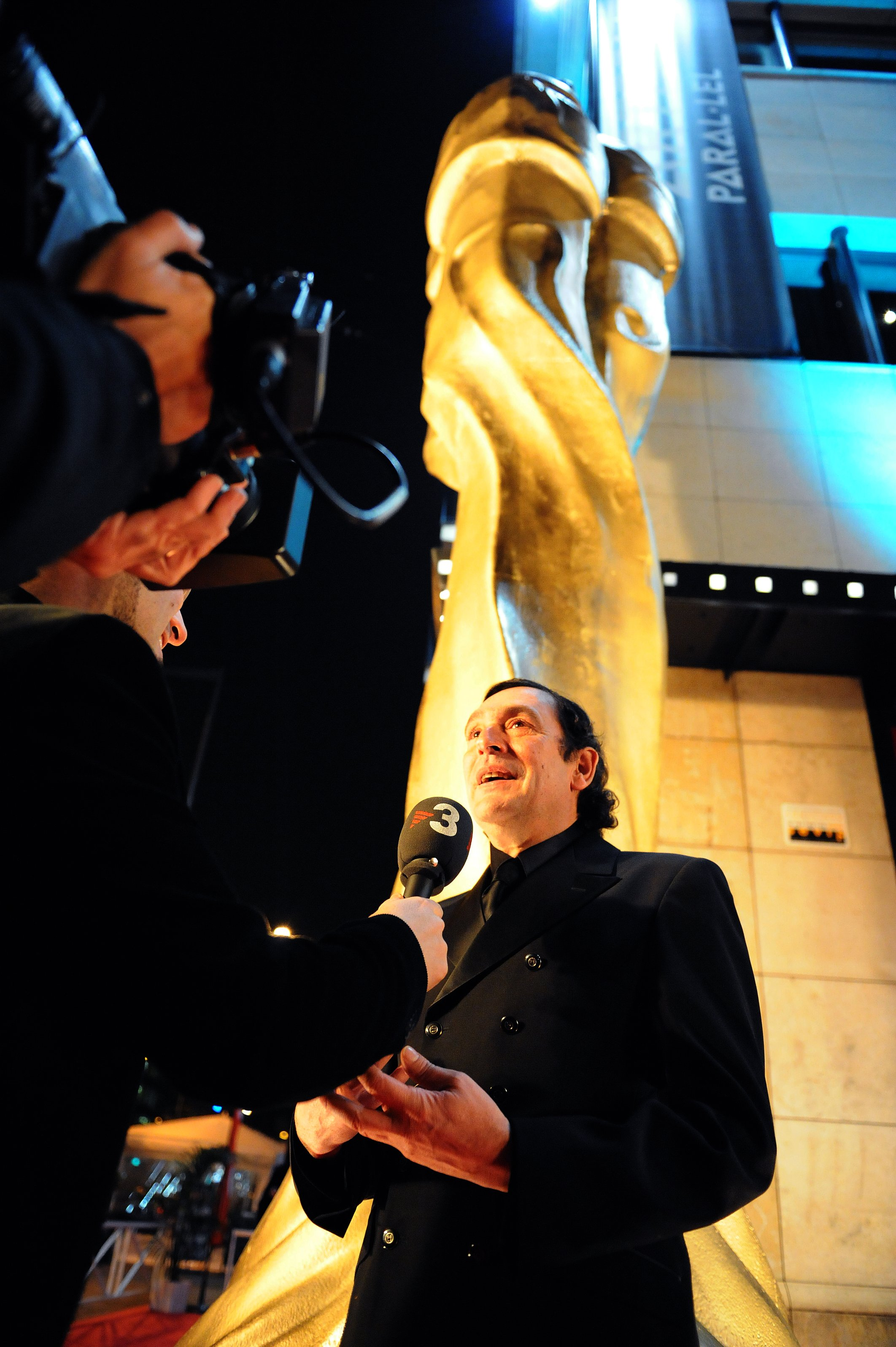 Photo of Agustí Villaronga in the soiree of Gaudí Awards 2011